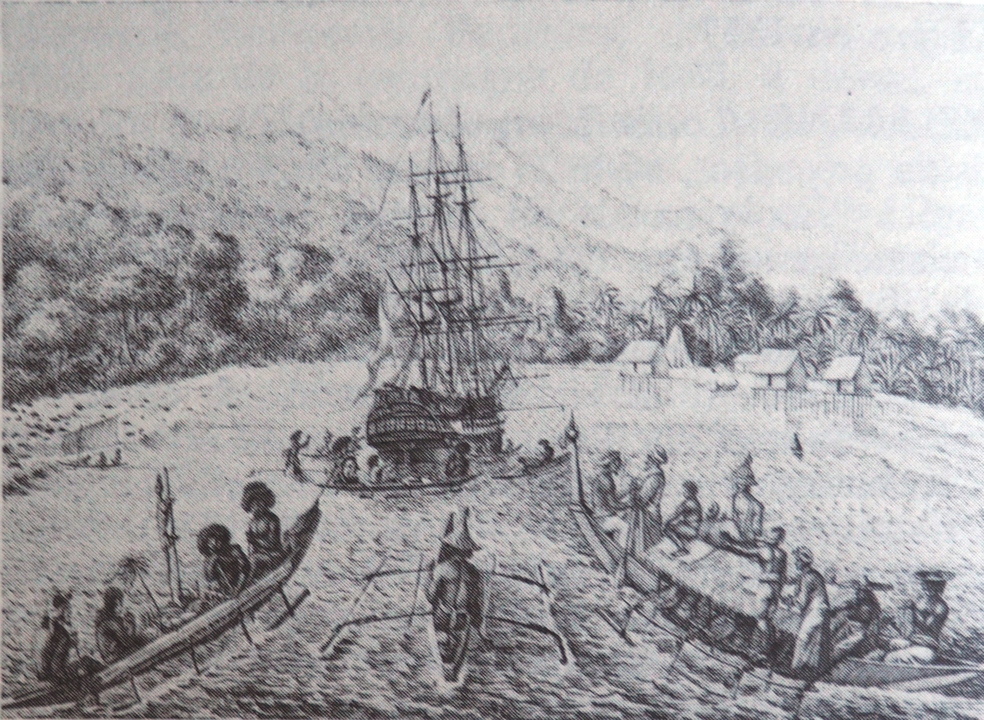 19th-century depiction of Ferycinet's expedition to the Sourthern territories